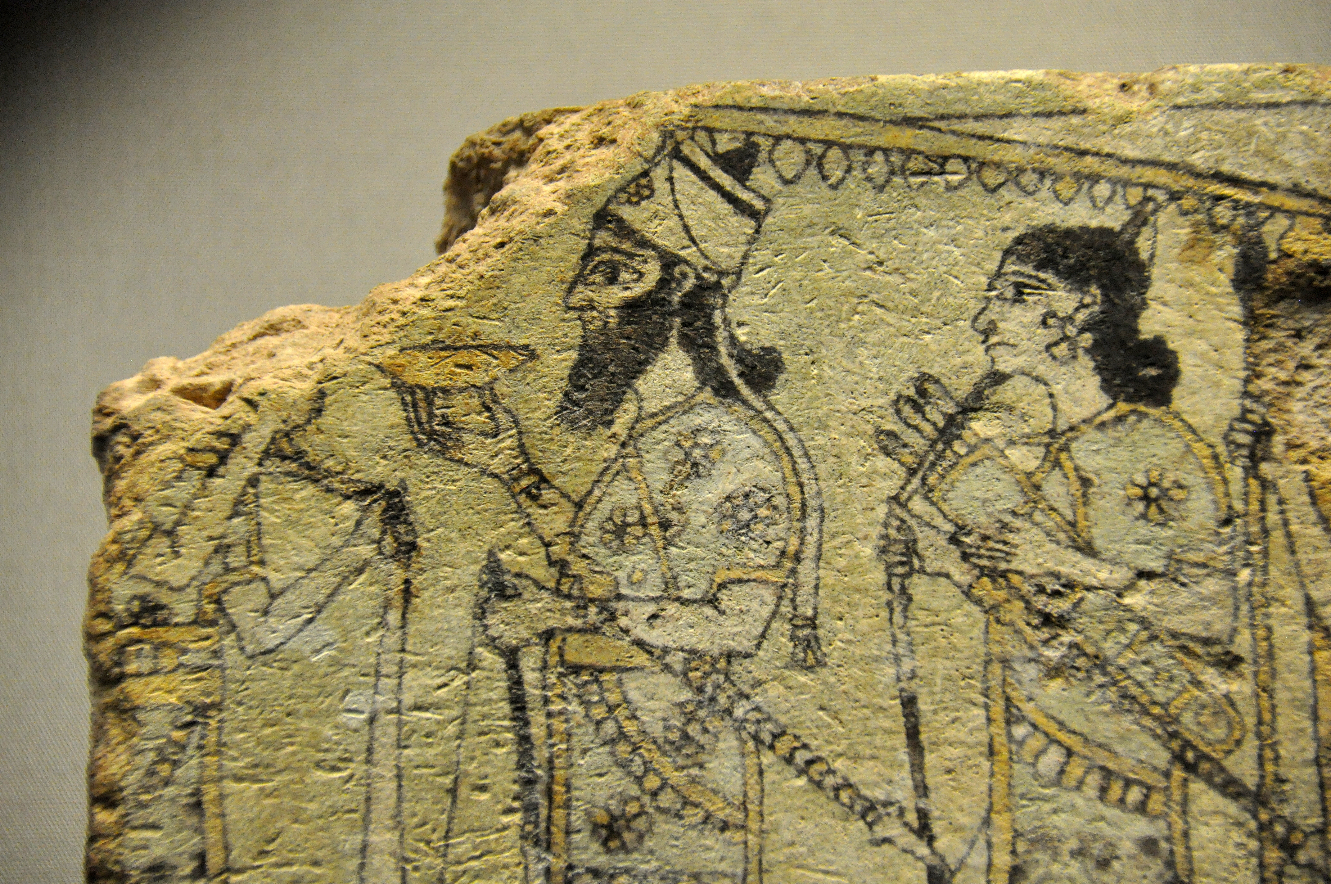 Detail of a glazed terracotta tile. The Assyrian king stands below a parasol (holding a cup and a bow) and is surrounded by his royal guards and attendants. Probably, this is part of a longer scene depicting the king as a victorious warrior and hunter. Neo-Assyrian Period, 875-850 BCE. From Nimrud (ancient Kalhu), Mesopotamia, modern-day Iraq. The British Museum, London.